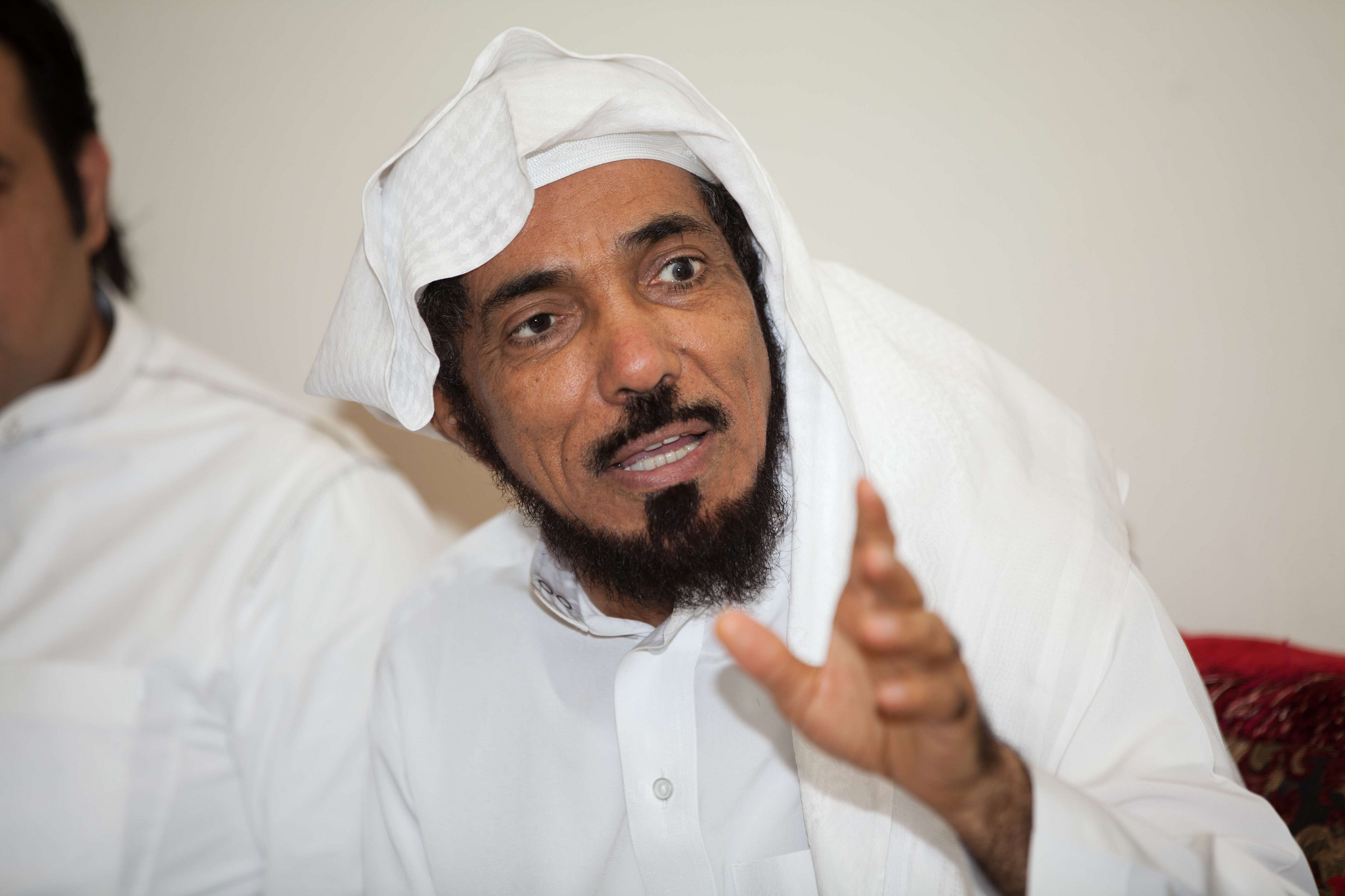 Salman al-Ouda talking to young YouTube producers.